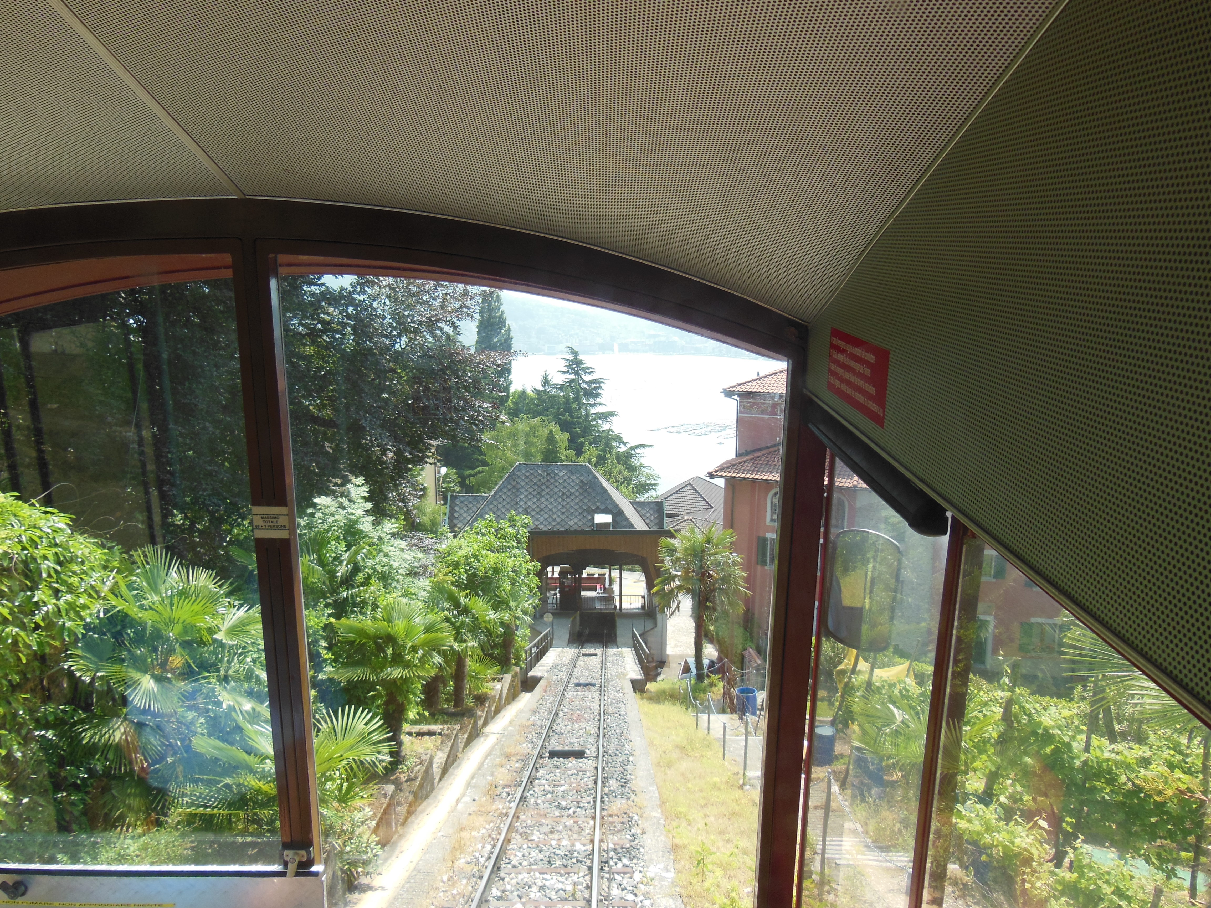 Looking downhill from a car about to enter the lower station of the upper section of the Monte Brè funicular. For more information, see Wikipedia article Monte Brè funicular.